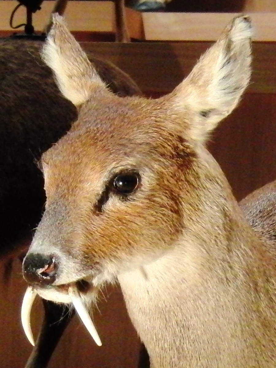 Stuffed specimen of Chinese water deer (Hydropotes inermis). Exhibit in the National Museum of Nature and Science, Tokyo, Japan.